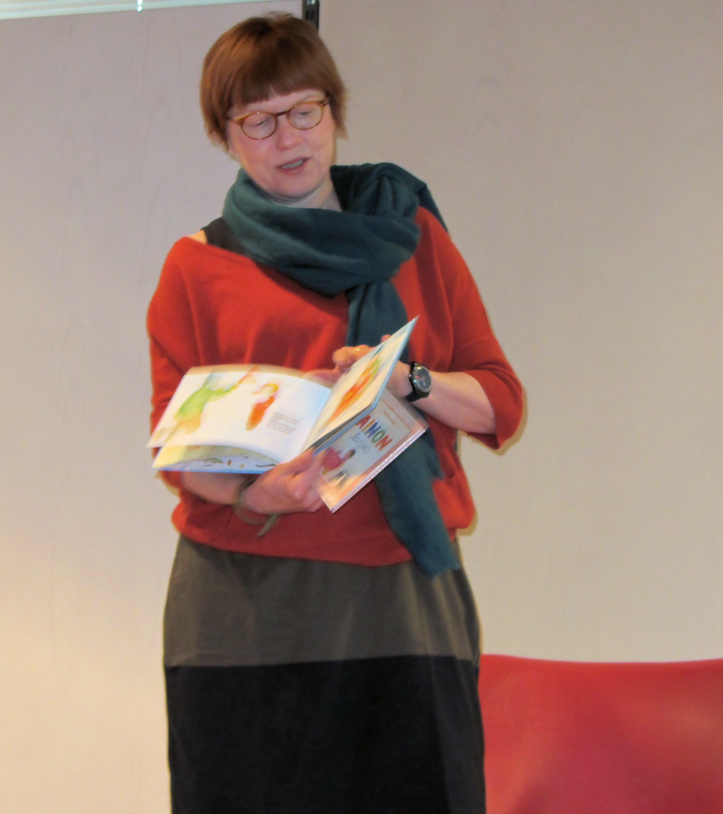 Finnish writer and illustrator Kristiina Louhi speaking about her books at Kerava Townlibrary in January 2013.